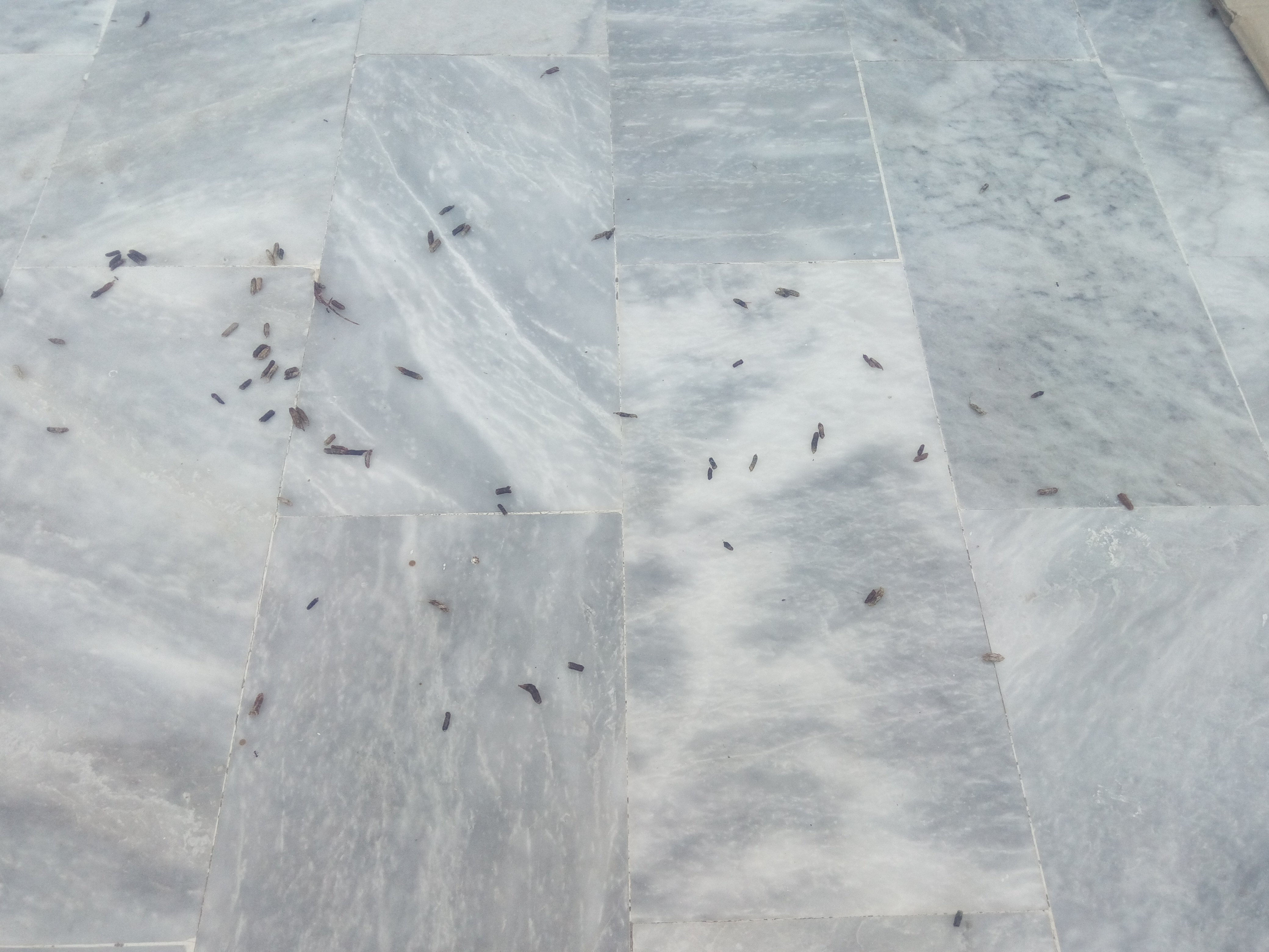 The shower of curse from clouds of locust in Tharparkar District, Pakistan